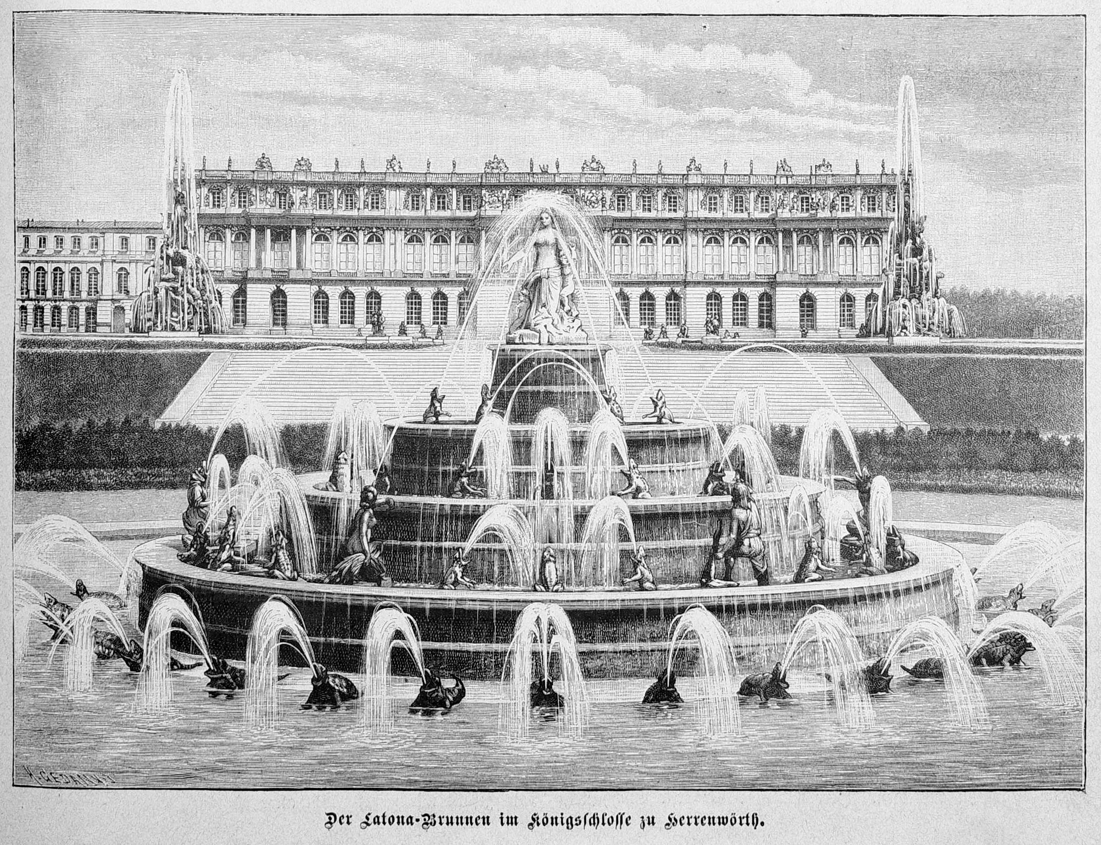 no caption